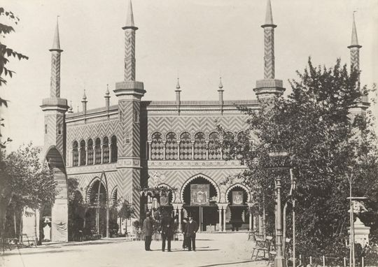 The now demolished Alhambra entertainment establishment and concert hall at Frederiksberg Allé in Copenhagen, Denmark